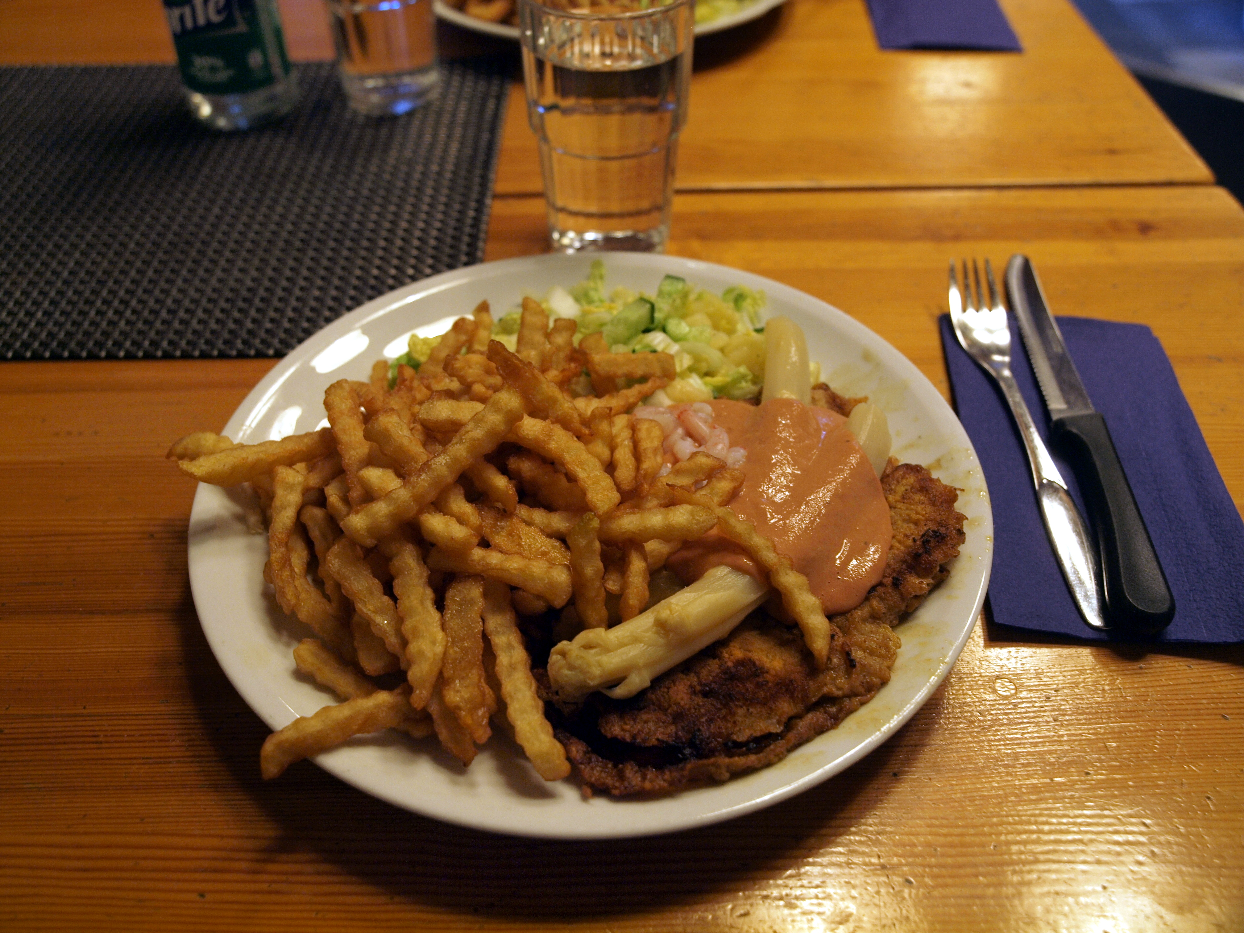 Oscar schnitzel, a pork cutlet topped with choron sauce, shrimps and fresh asparagus, served at restaurant Grilli Toro, Pohjois-Tapiola, Espoo, Finland.